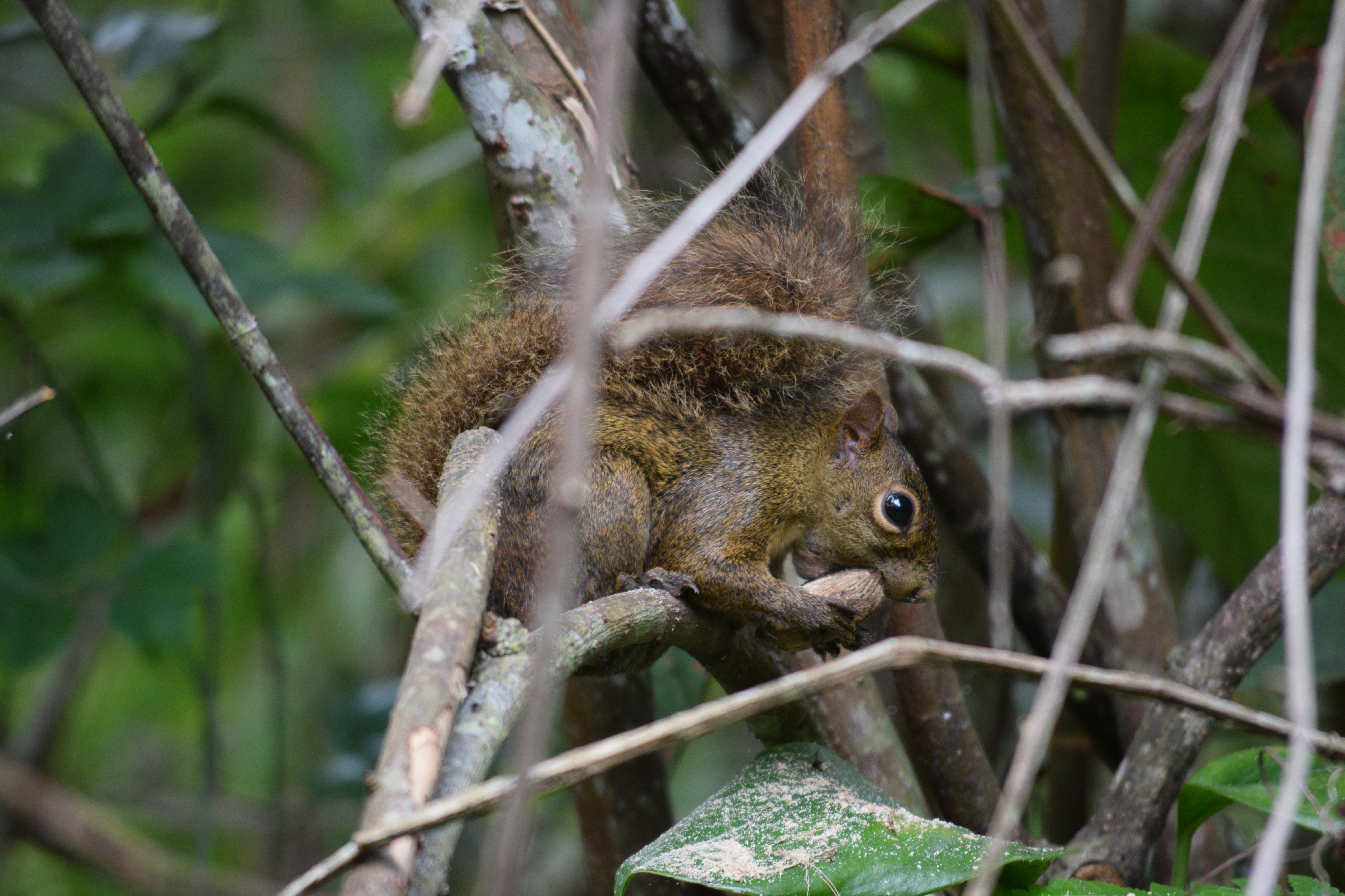 Brazilian Squirrel (Caxinguele) eating a nut